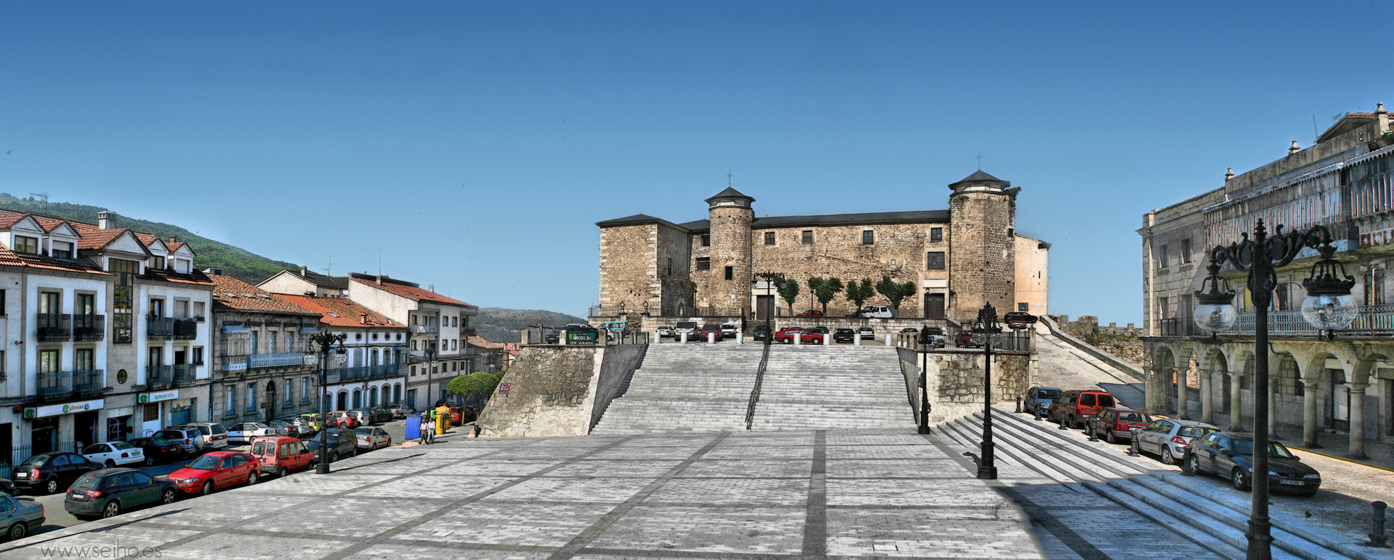 creative commons